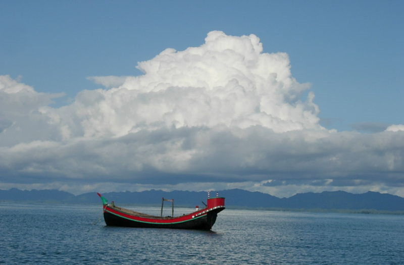 A fishing boat a little distance away from St. Martins Island.